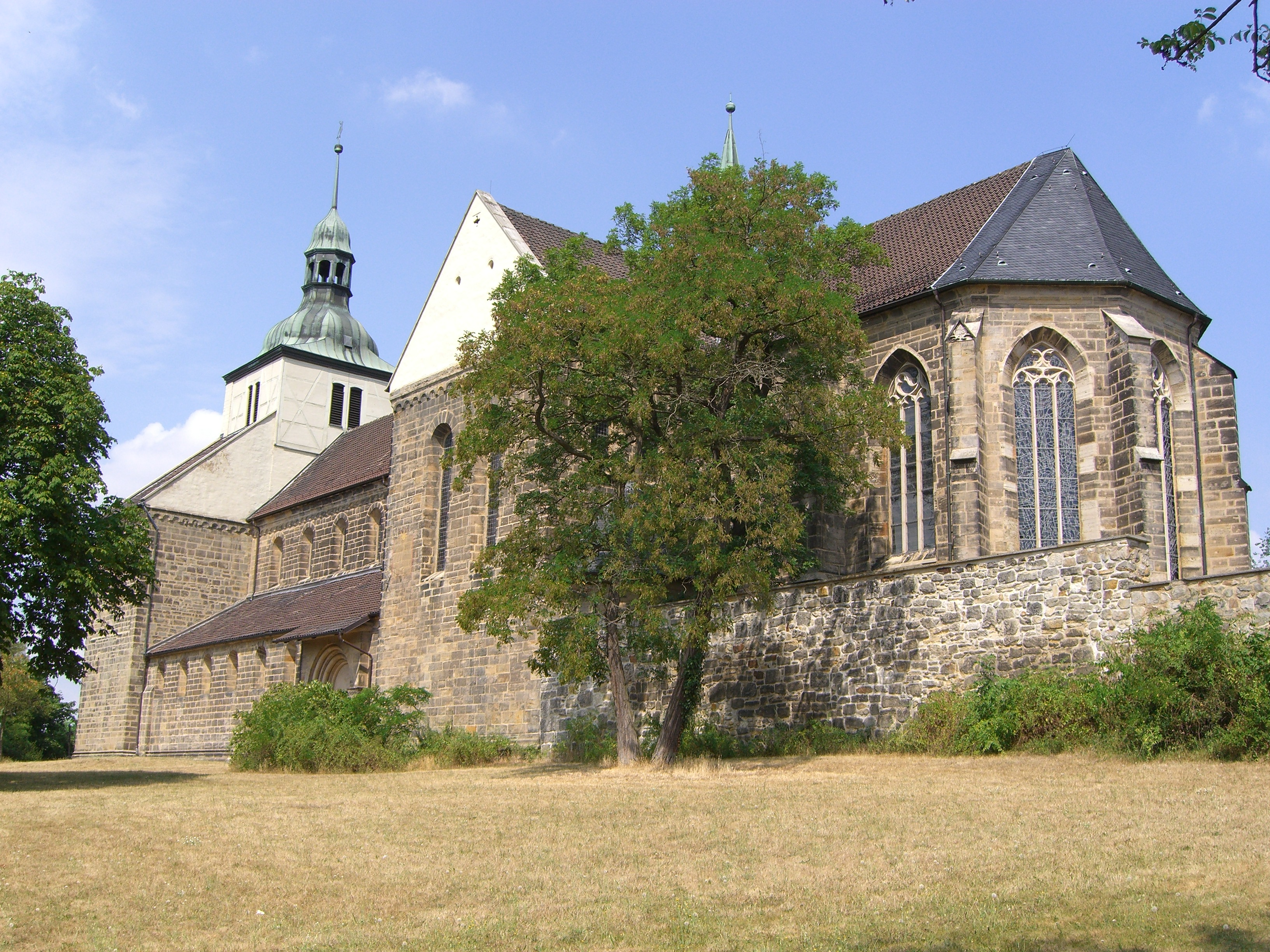 Church Saint Marienberg in Helmstedt